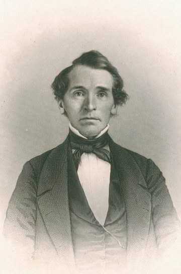 Alexander H. Buell, Congressman from New York